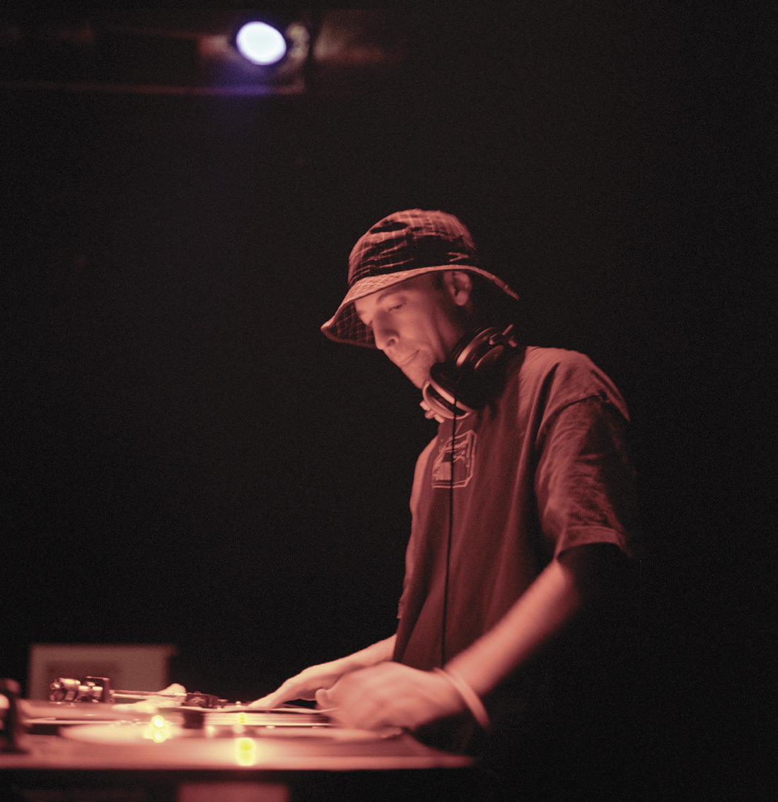 dj peanut butter wolf in Cologne/Germany 2003 from stones trow records